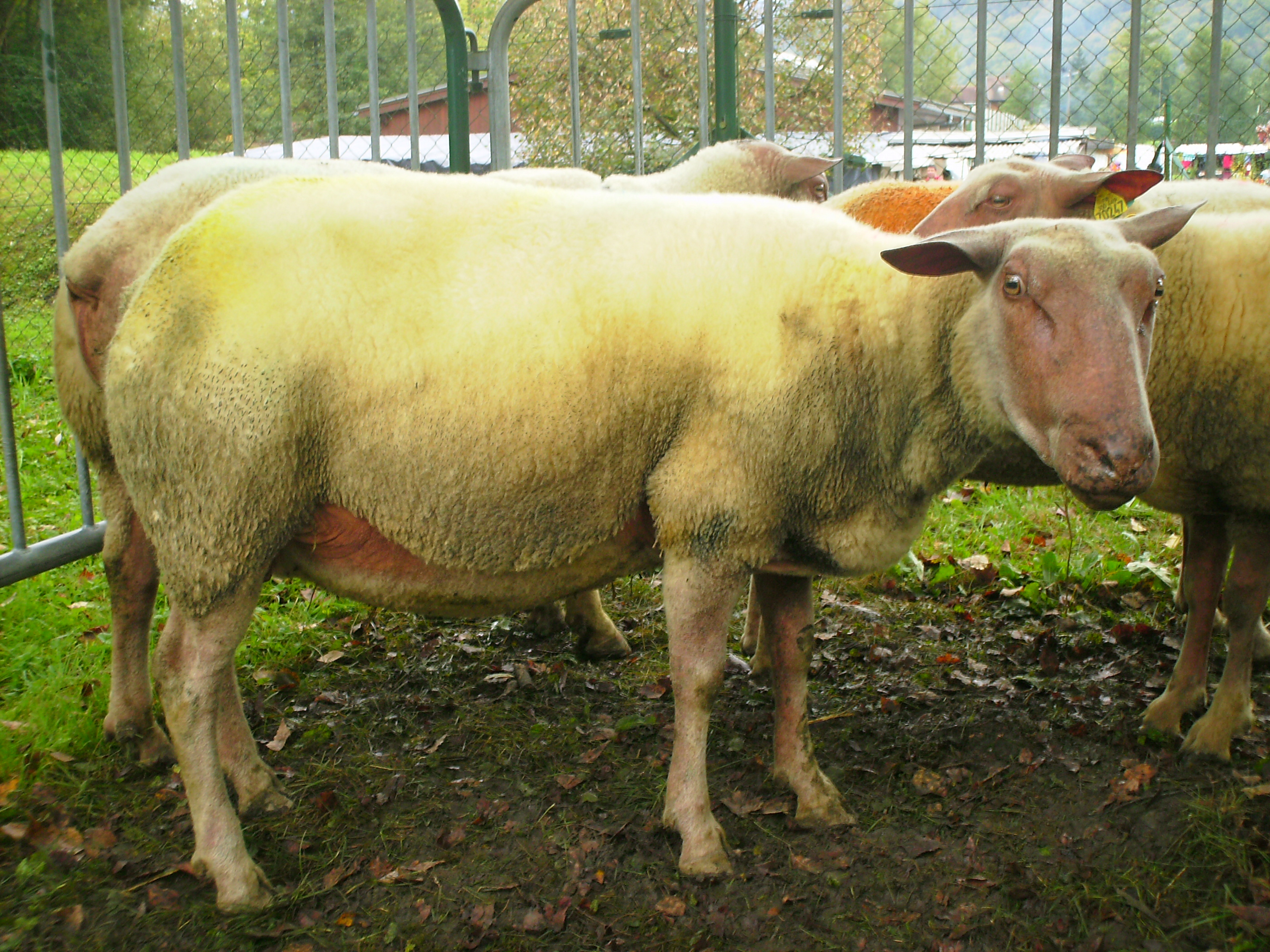 Sheep, "Rouge de l'Ouest" french race